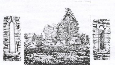 Ruins of Kilmacduan church in County Clare, Ireland, from Westropp, Thomas Johnson (1904). Journal of the Limerick Field Club 2 (8). Retrieved on 2014-03-31.